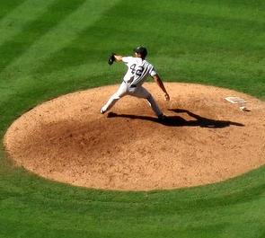 Mariano Rivera of the New York Yankees delivers a pitch.